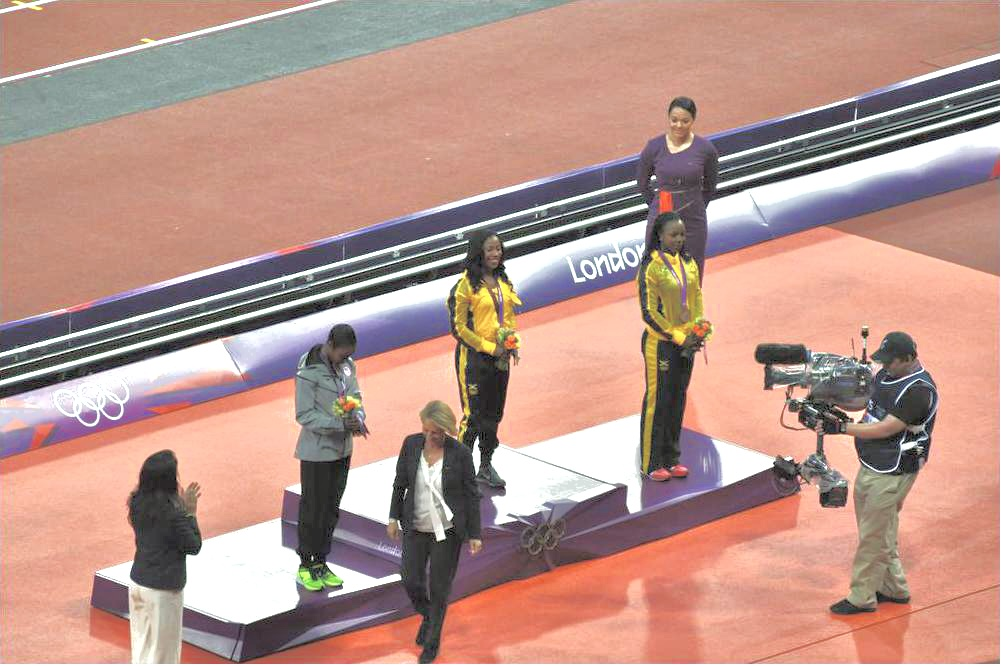 Womens 100m medal ceremony